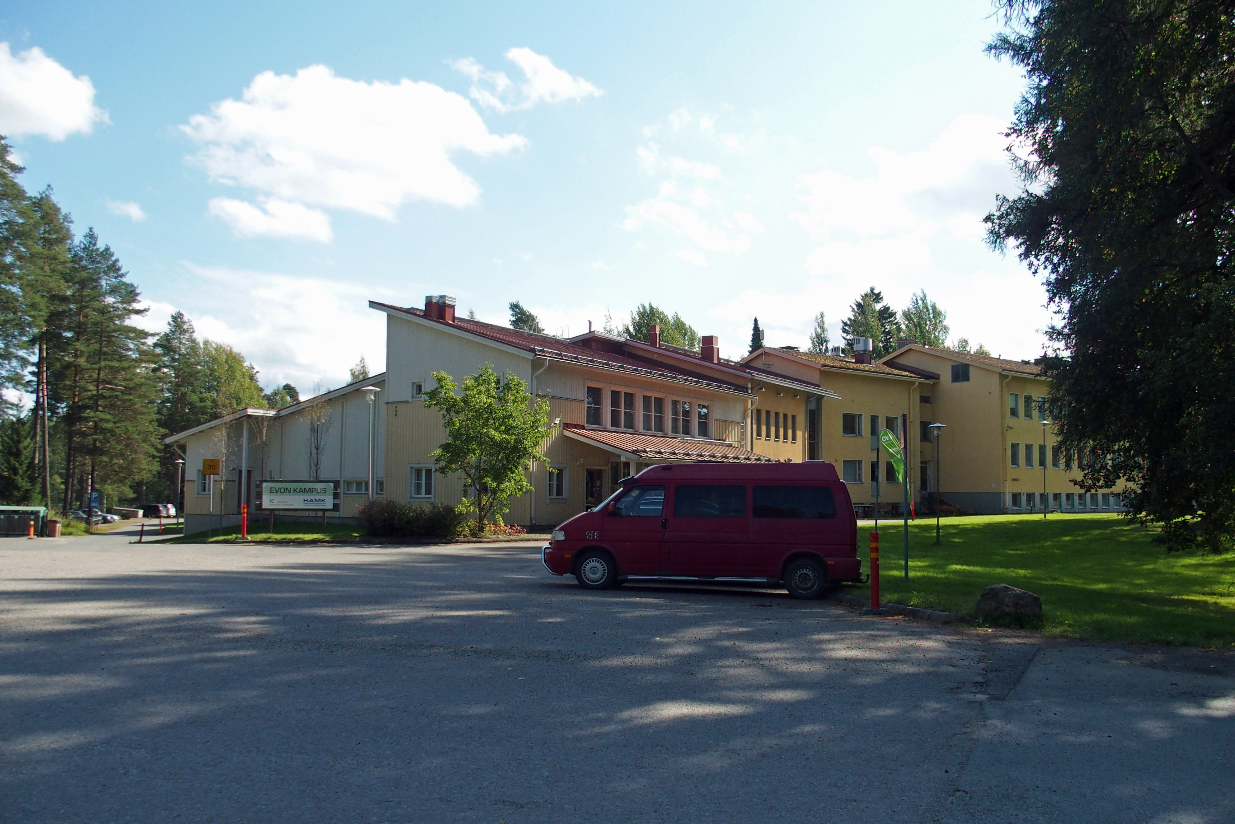 Forestry school now belonging to Hämeen ammattikorkeakoulu (HAMK) in Evo, Hämeenlinna